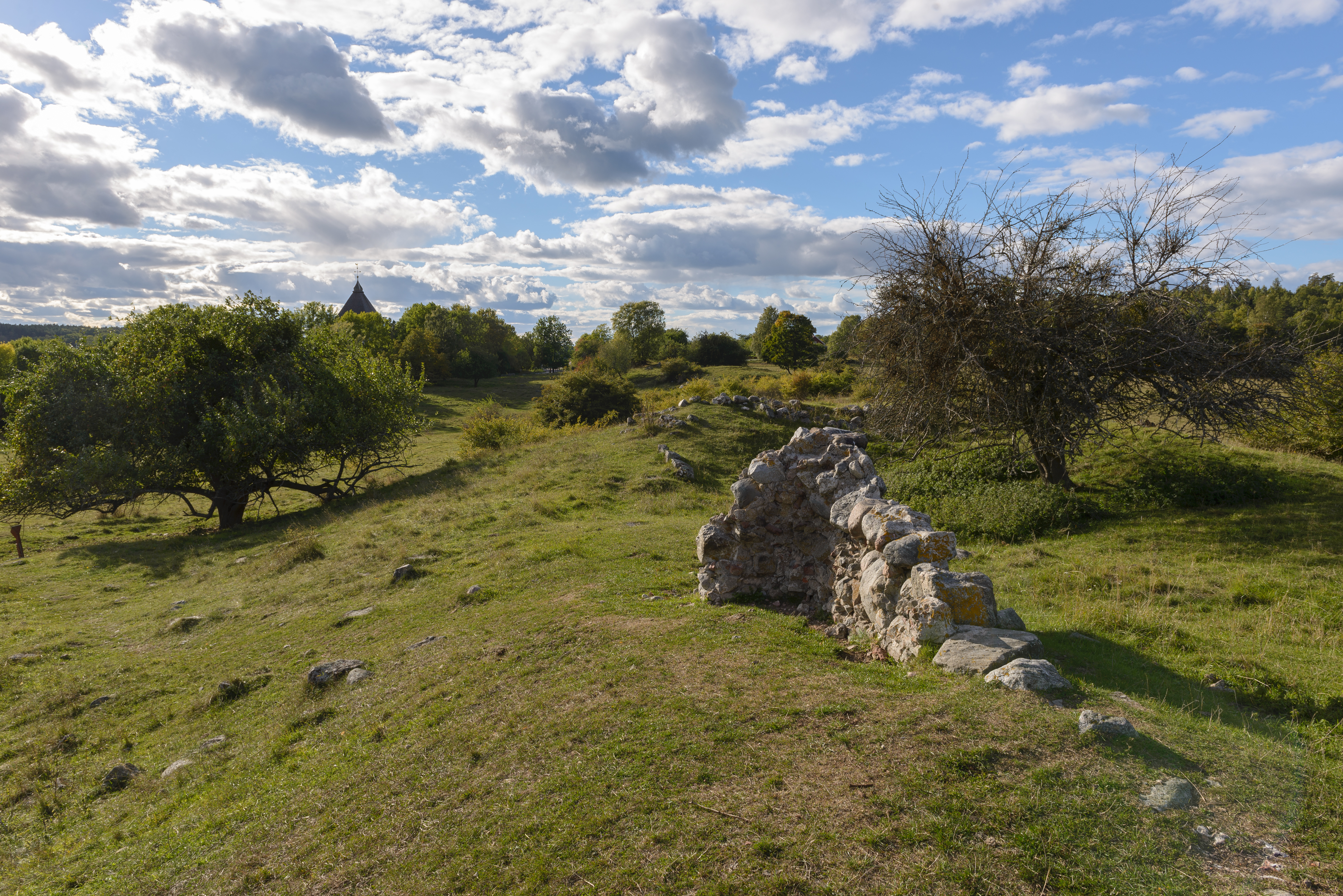 Hovgården seen from Alsnö husCastle ruins, Adelsö, Stockholms County. To the left, the tower of Adelsö church, and to the right burial mounds. Part of Birka and Hovgården World Heritag.